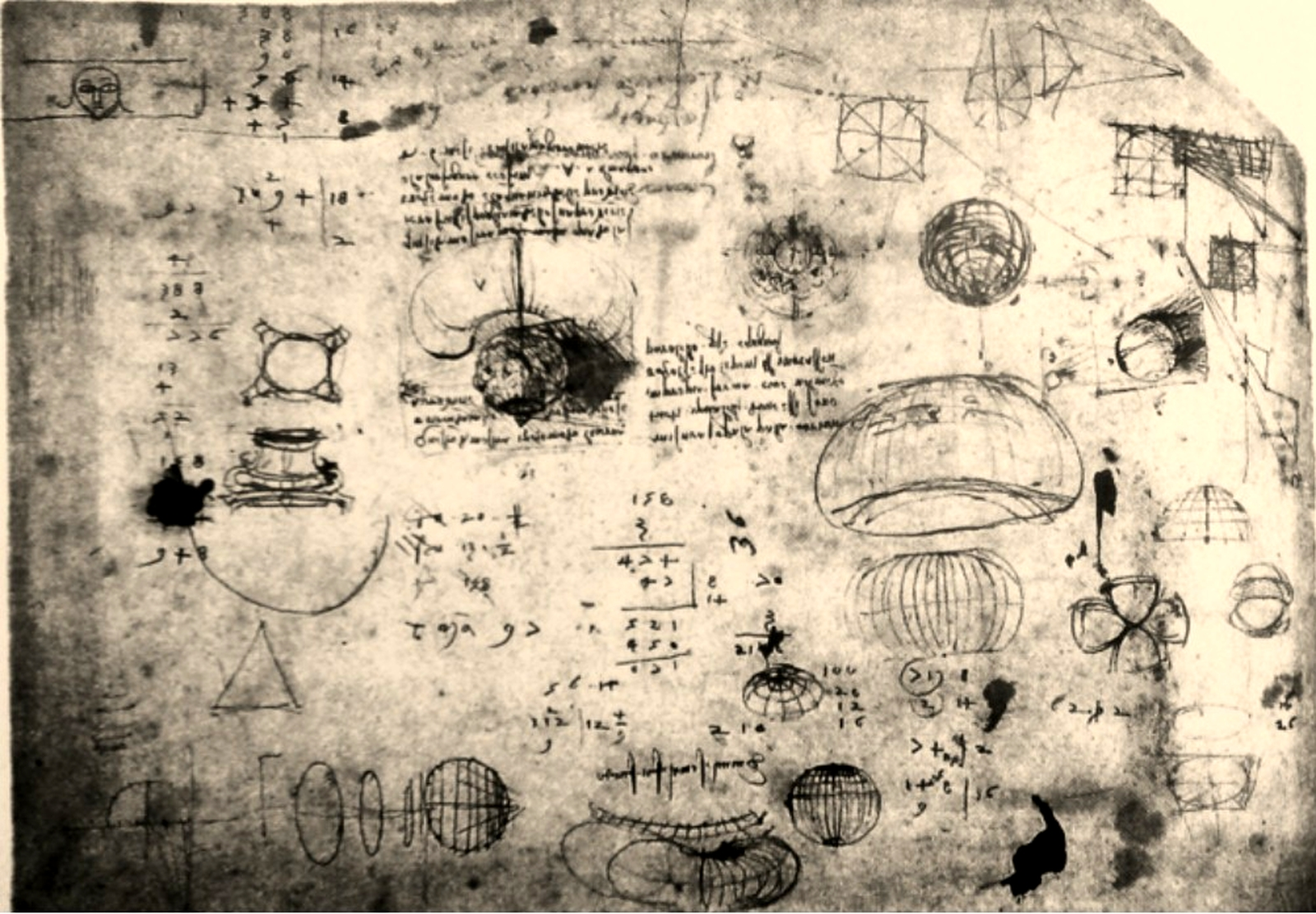 Page of the Codex Atlanticus with sketches of eight projections of the globe (those known in the late fifteenth century), being studied by Leonardo, ranging from the Ptolemy's conical planisphere projection to the one proposed by Rossell